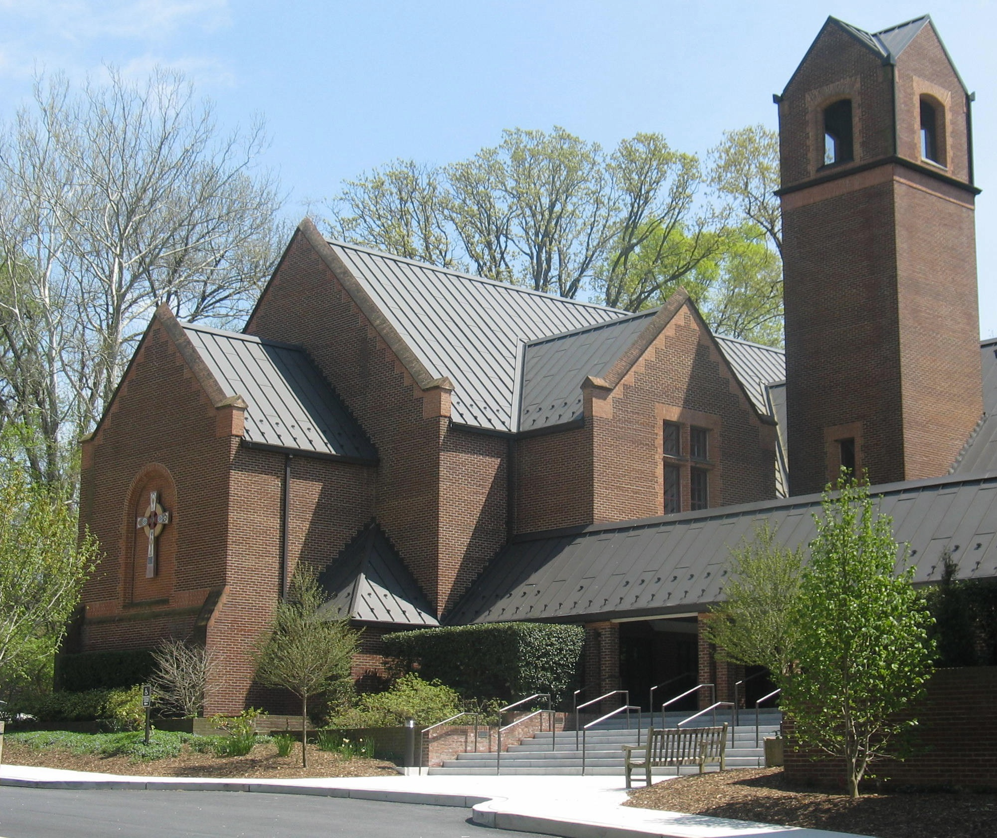 The exterior of St. Patrick's Episcopal Church in Washington, DC.